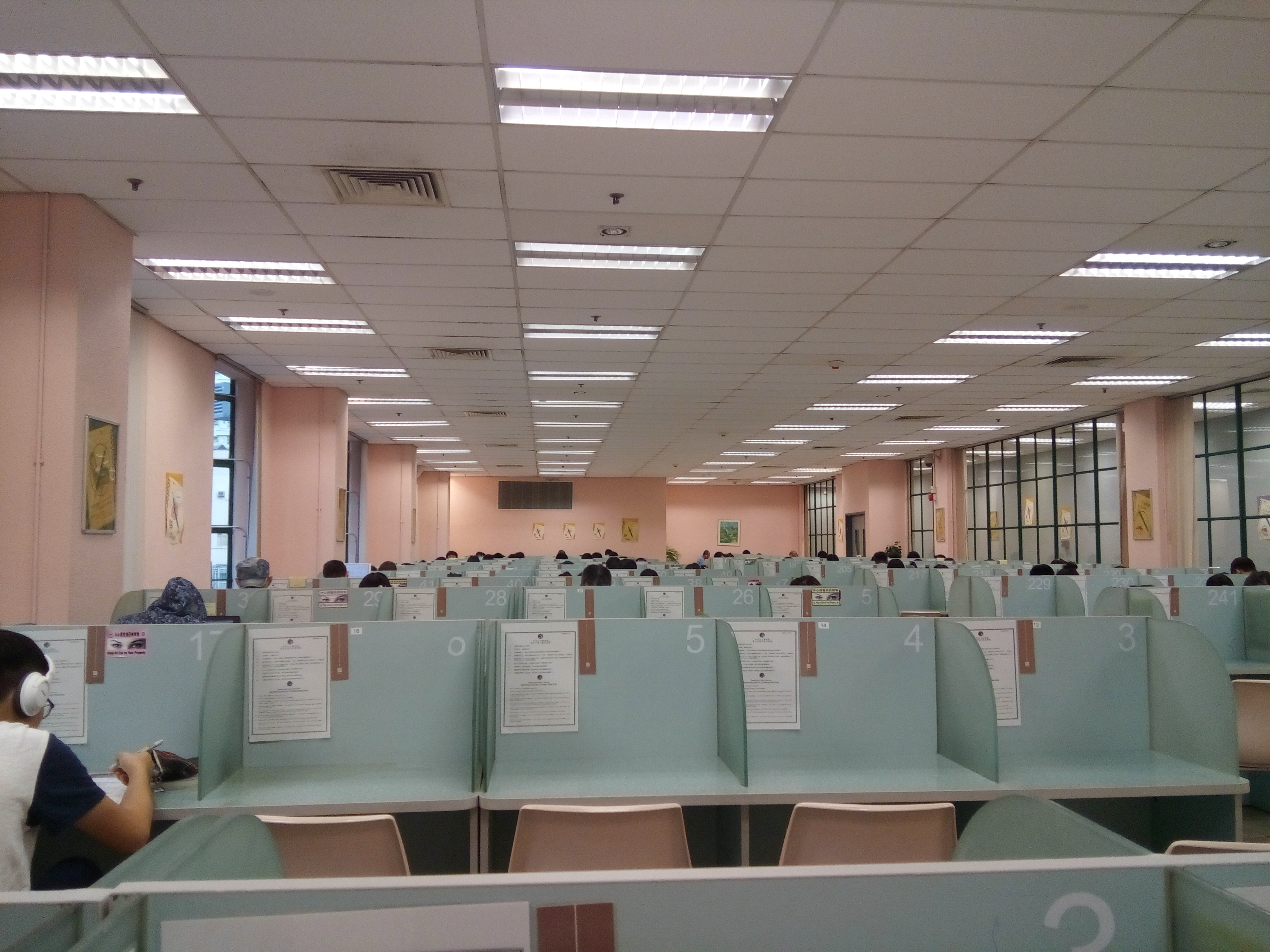 HK Shek Tong Tsui 石塘咀 公共圖書館 Public Library study room interior